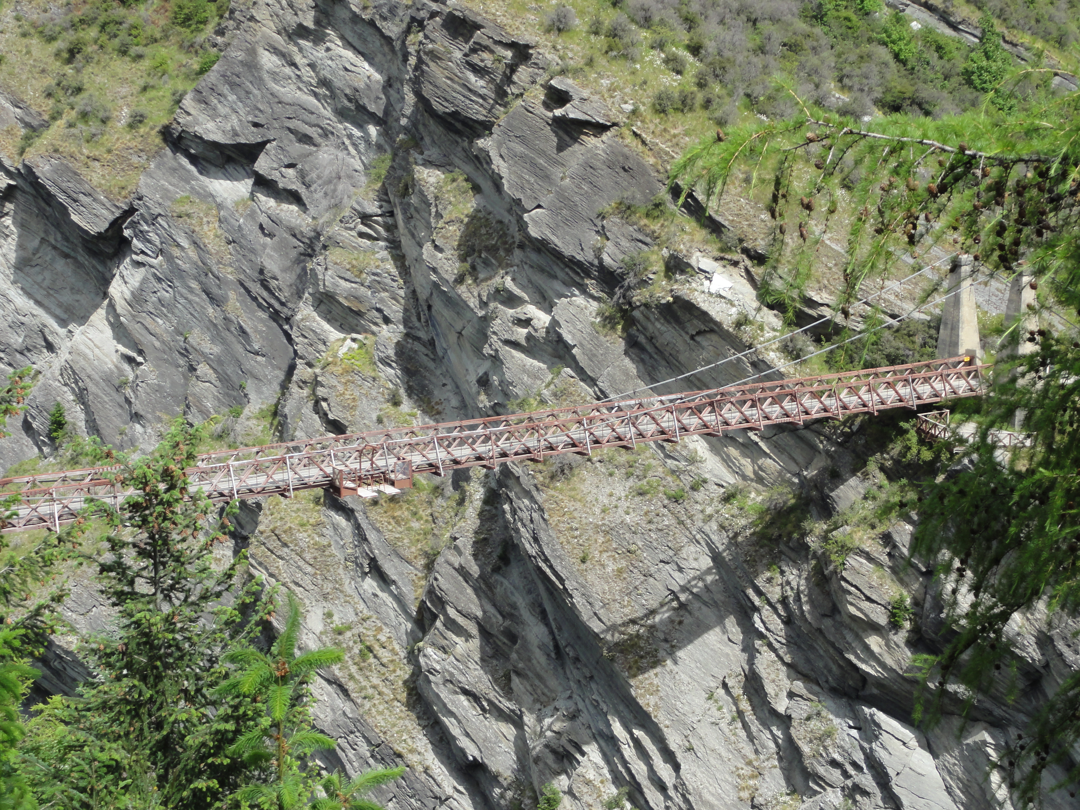 Suspension bridge at Skippers Canon near Skippers